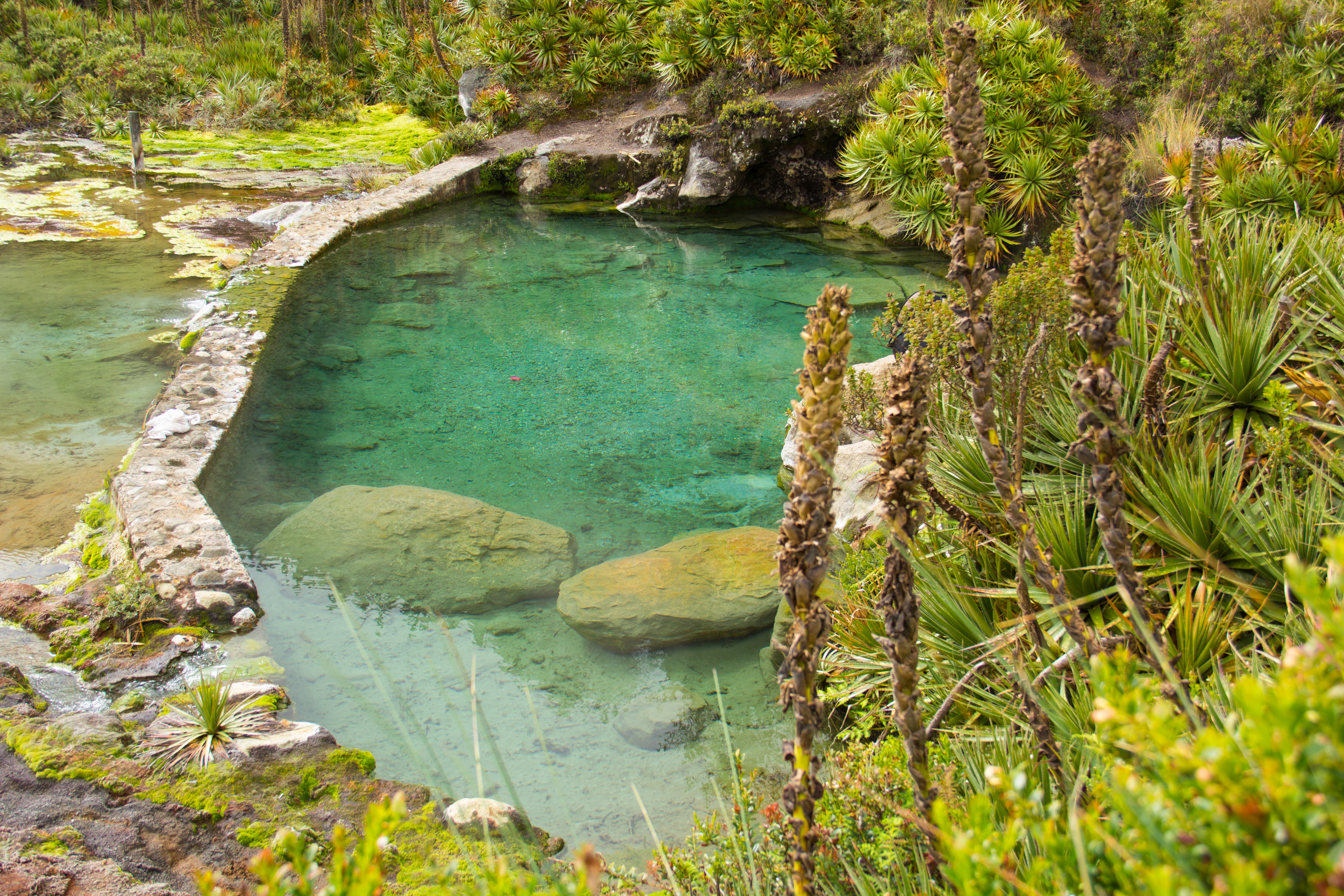 Murillo, Tolima; Colombia. Esta fotografía fue tomada en el municipio colombiano con código 73461.